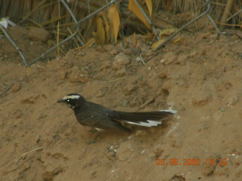 White browed Fantail Flycatcher Rhipidura aureola. Photographed in my desert garden, district Jaisalmer, Rajasthan, India. Image author is AshLin. Self-work.